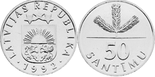 50 Santimu Latvia Obverse: The small coat of arms of the Republic of Latvia, encircled by the inscription LATVIJAS REPUBLIKA • 1992 (Republic of Latvia 1992), is placed in the centre. Reverse: A pine tree seedling, the symbol of bountiful Latvian timber resources, is depicted in the upper part of the coin. A horizontal line separates it from the numeral 50, under which the inscription SANTIMU is placed in a semicircle. Edge: Reeded.